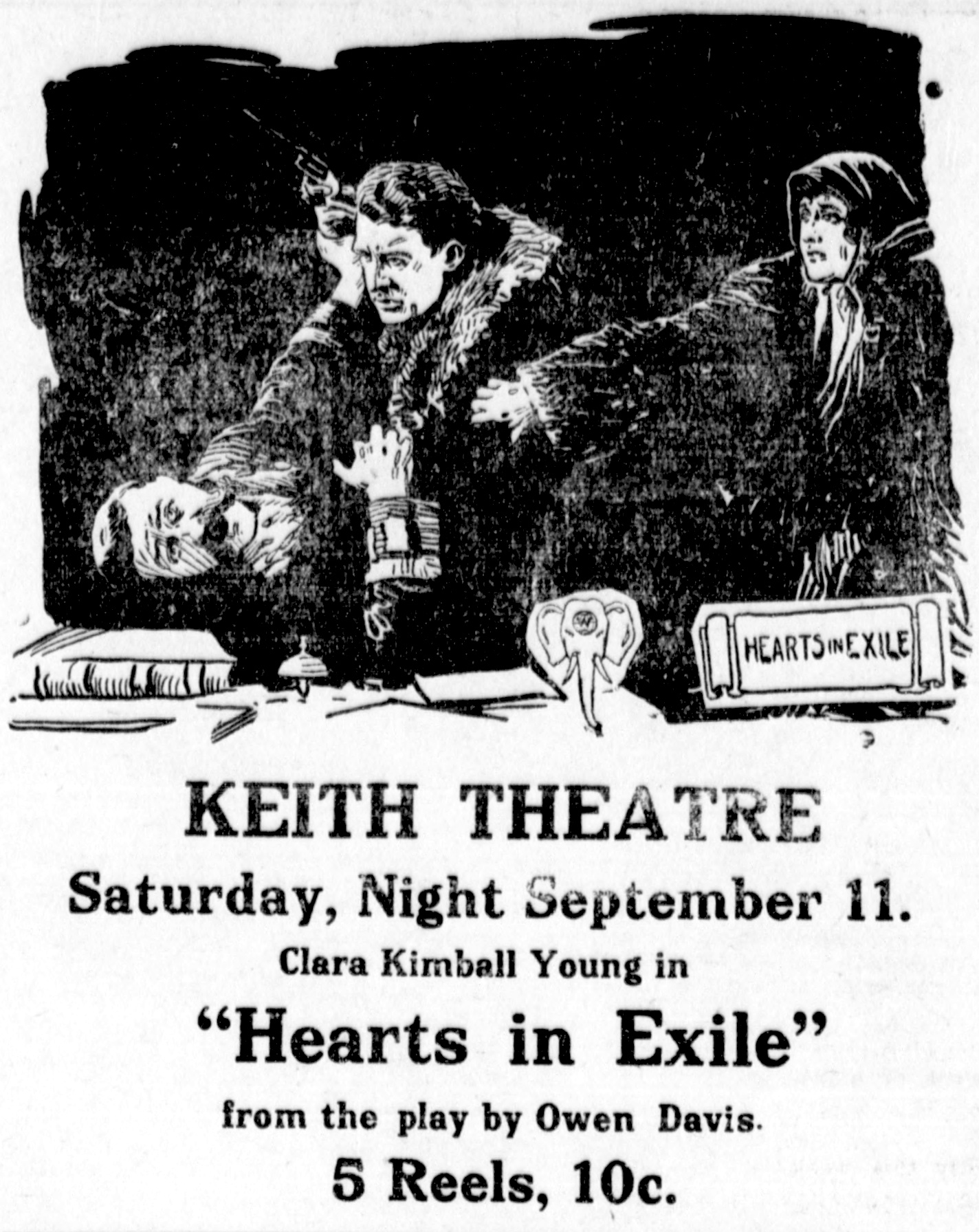 Hearts in Exile is a 1915 American film directed by James Young. This is a newspaper advertisement for the film.